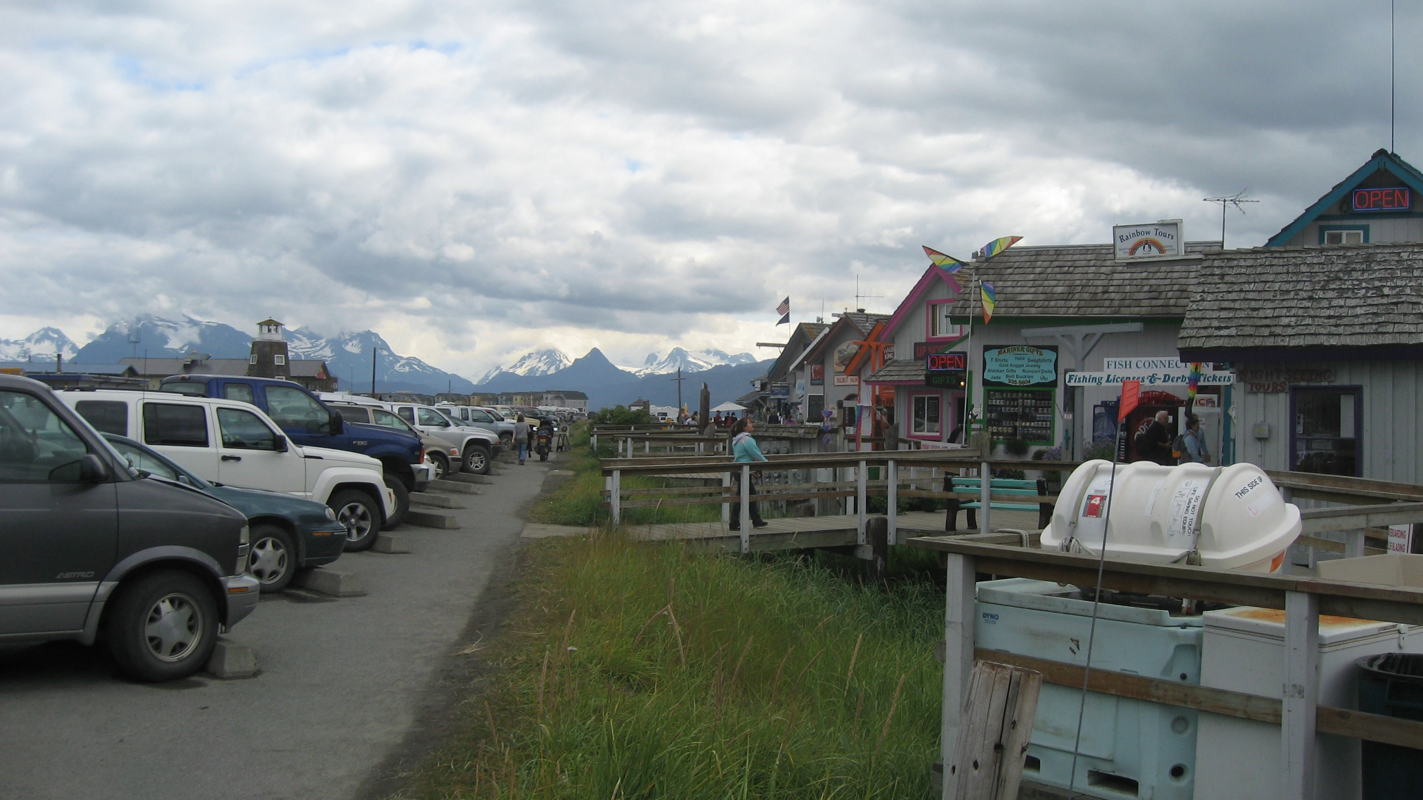 Waterfront businesses, Homer Alaska in the summer of 2008